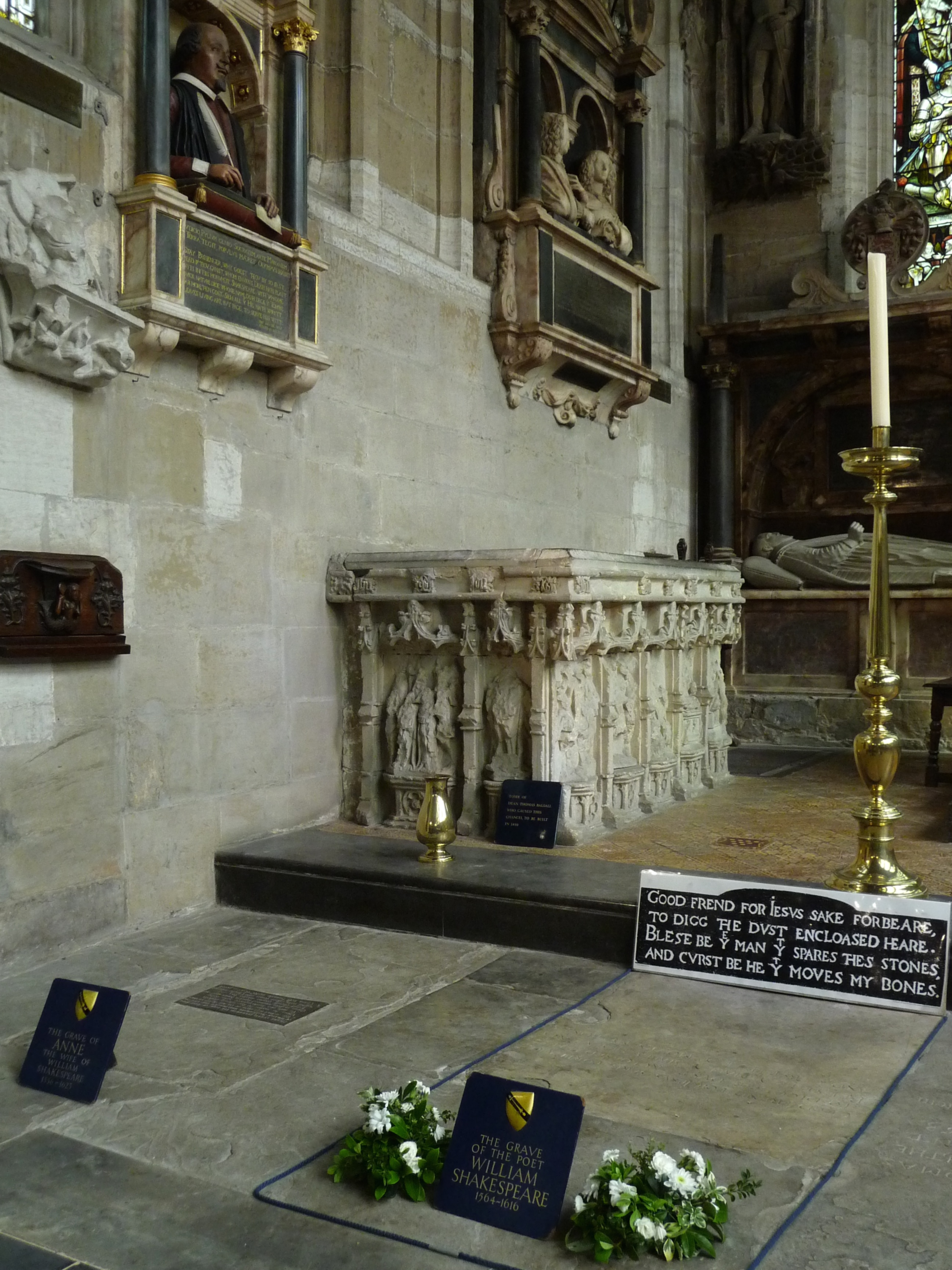 Funerary monument of William Shakespeare and his wife Anne Hathaway, Church of the Holy Trinity, Stratford-upon-Avon, Warwickshire, England